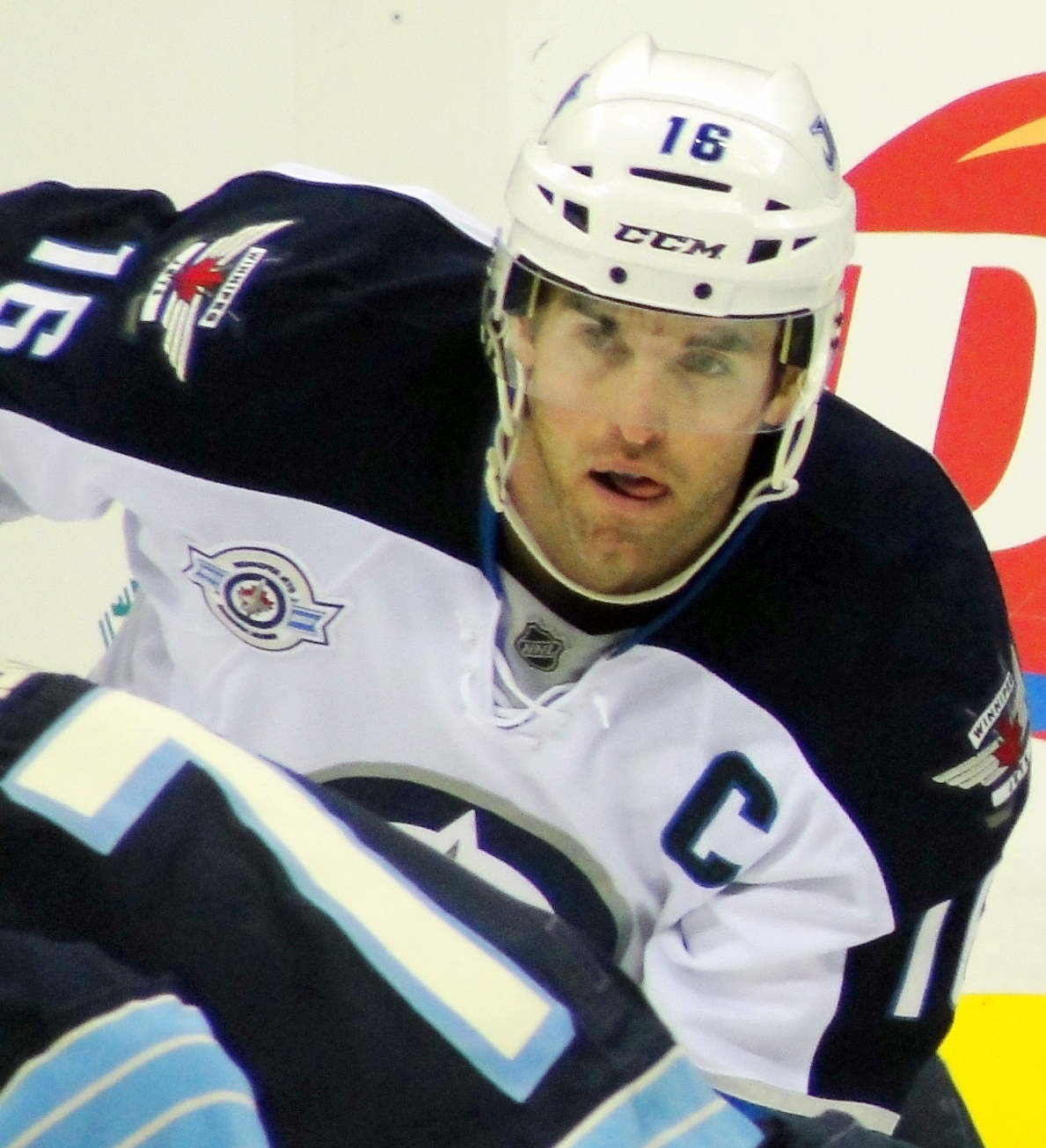 Andrew Ladd of the Winnepeg Jets during a game against the Pittsburgh Penguins, February 11, 2012 at Consol Energy Center in Pittsburgh, PA.